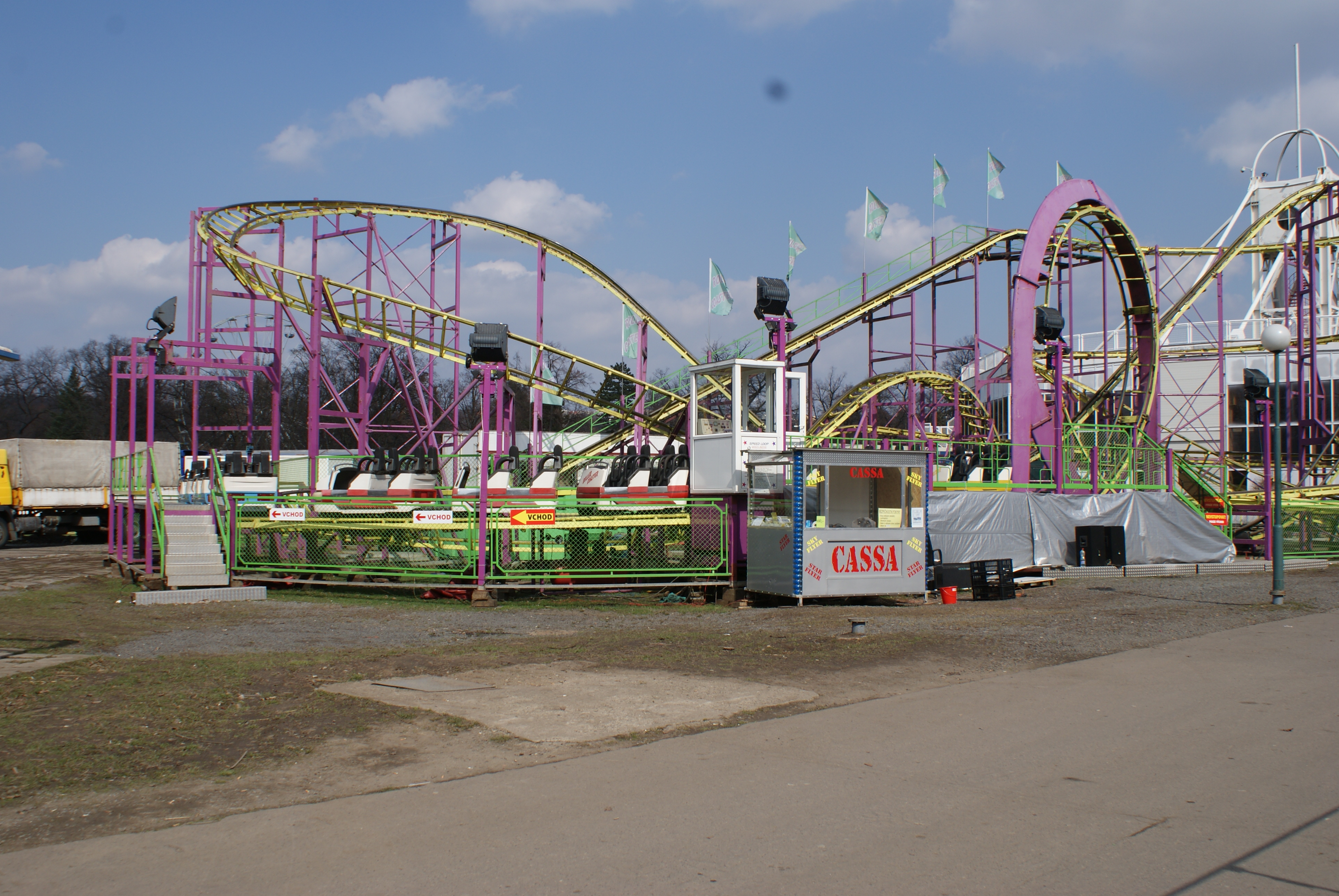 Small roller coaster at the Matthias Fair in Prague Česky: Malá horská dráha na Matějské pouti